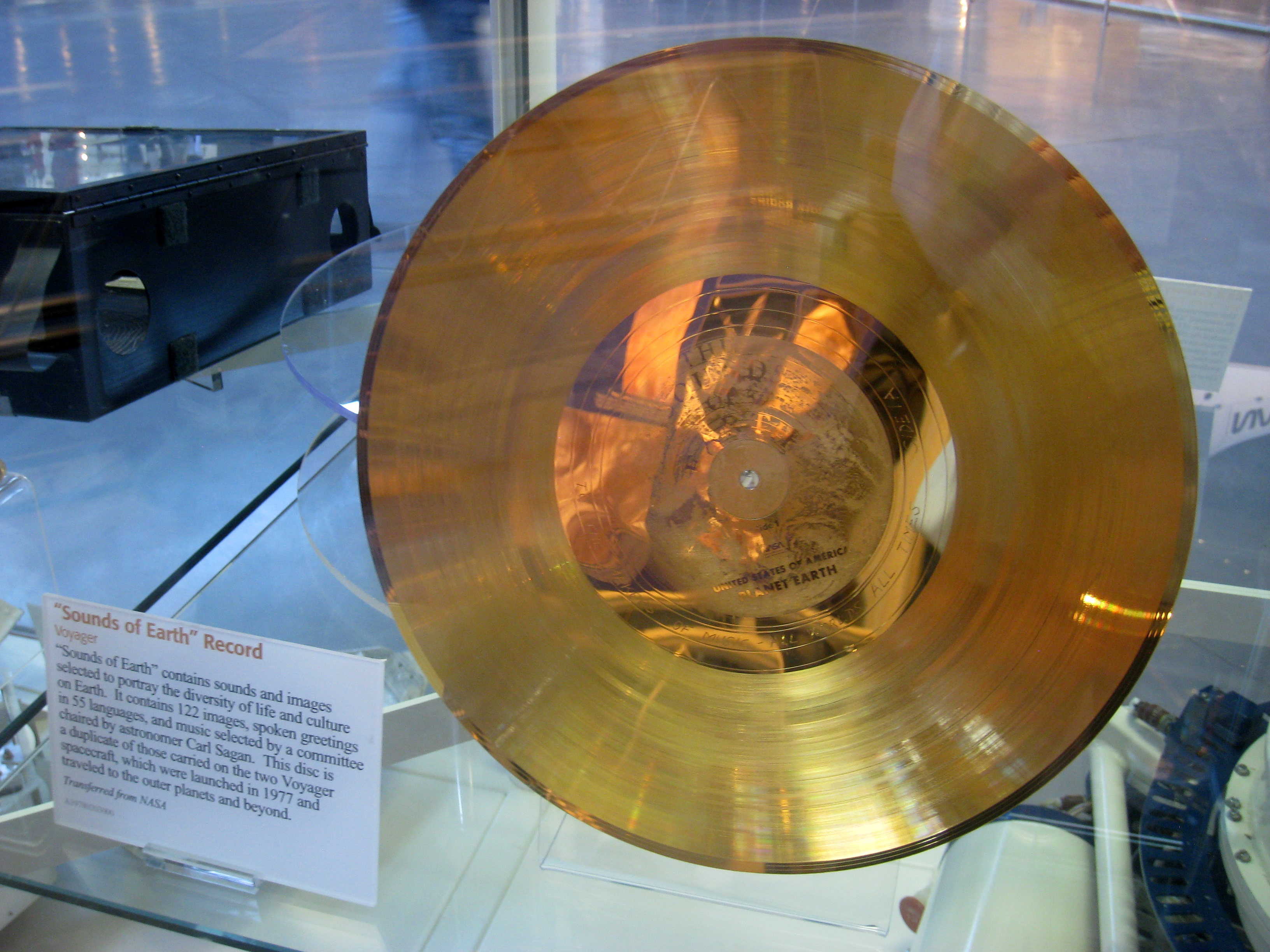 Voyager "Sounds of Earth" record - Udvar-Hazy Center, Dulles International Airport, Chantilly, Virginia, USA.